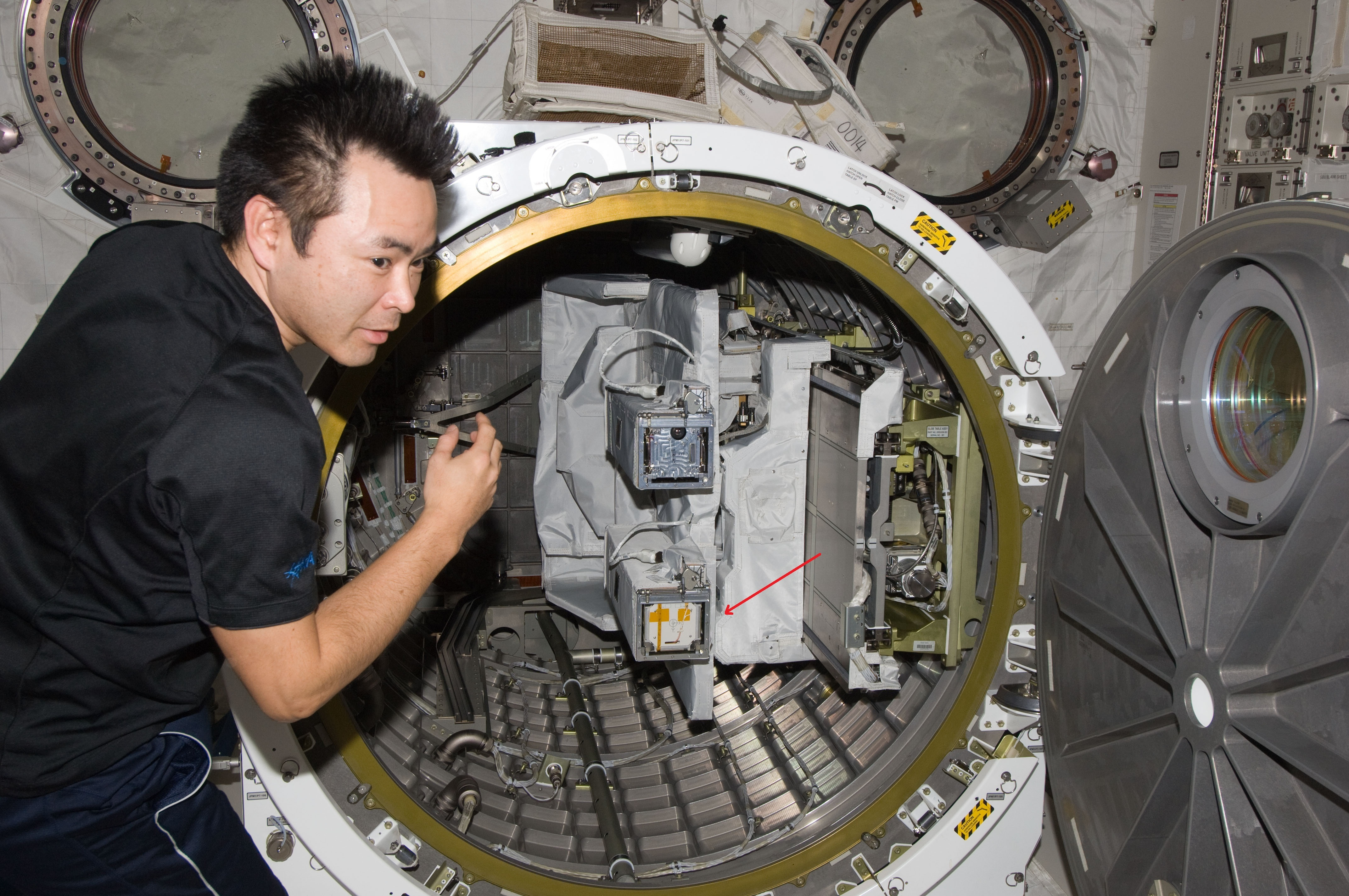 TechEdSat (bottom) in airlock of ISS